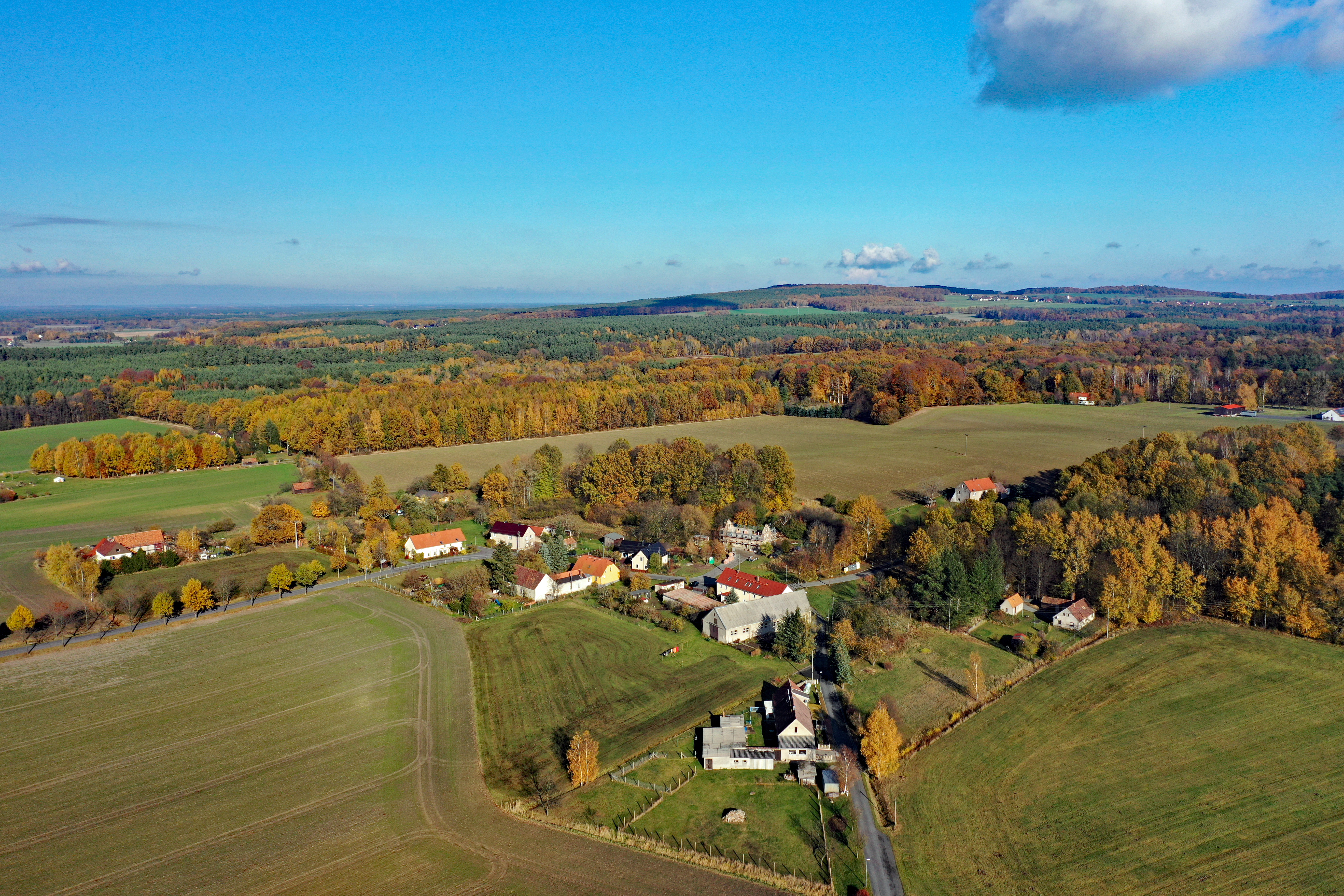 Sandförstgen (Hohendubrau, Landkreis Görlitz, Saxony, Germany) Hornjoserbsce: Powětrowy wobraz Borštki Dieses Foto wurde mit einem Quadcopter innerhalb der RMZ des Flugplatzes EDAB aufgenommen. Der Flugleiter wurde am Aufnahmetag telephonisch über Ort und Zeit informiert und hat zugestimmt. Der Flug erfolgte auf Grundlage der Allgemeinverfügung der Landesdirektion Sachsen zur Erteilung der Betriebserlaubnis für unbemannte Luftfahrtsysteme und Flugmodelle gemäß § 21a LuftVO und Zulassung von Ausnahmen von Betriebsverboten gemäß § 21b LuftVO für den Freistaat Sachsen.